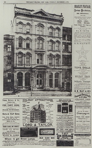 Steinway Hall on East 14th Street, between University Place and Fifth Avenue in Manhattan. The first halftone print of a photo used in a periodical in the United States.